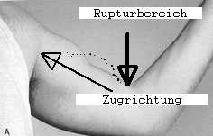 showing bicedpstendonrupture distal. moving muscle